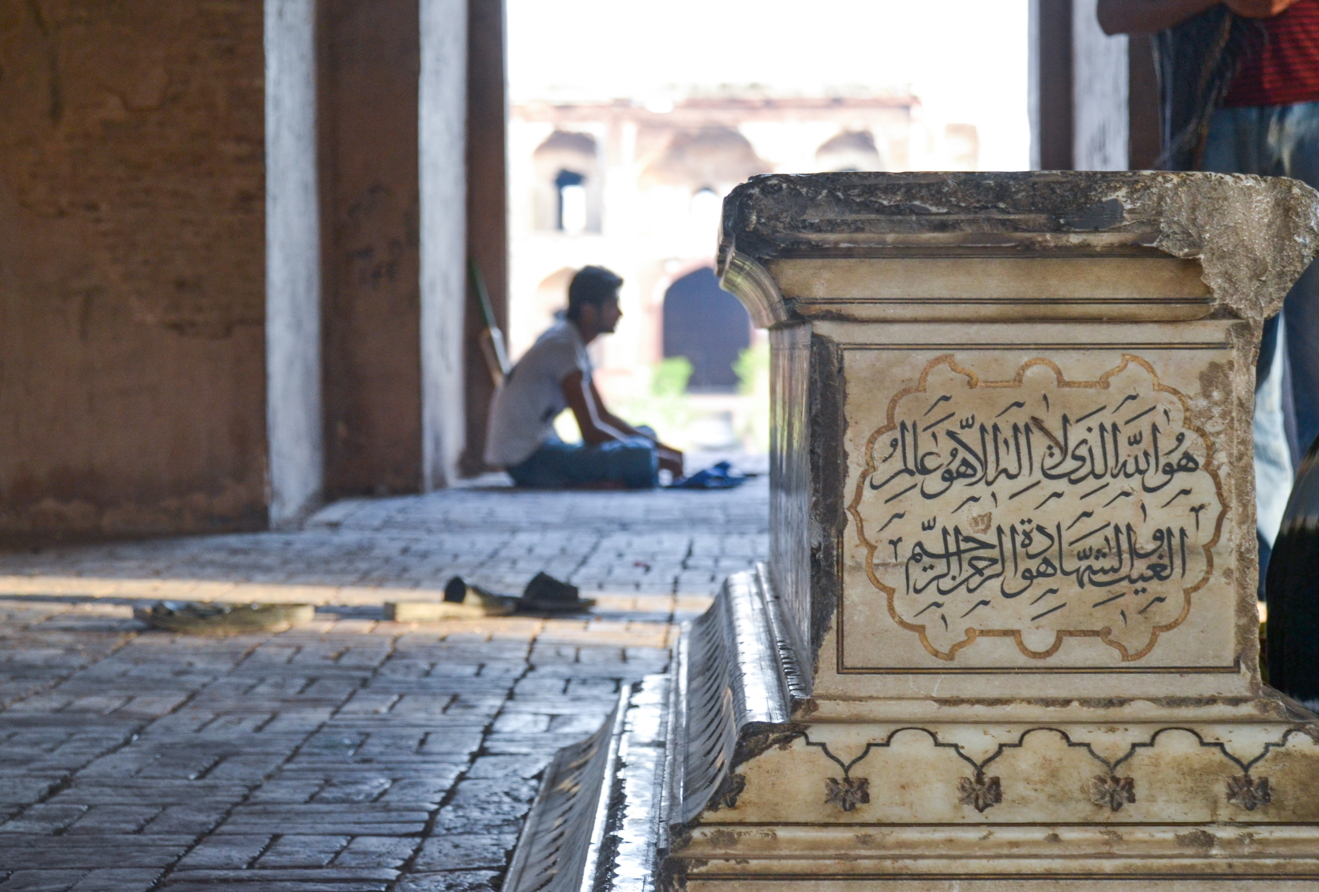 Tomb of Asif Khan This is a photo of a monument in Pakistan identified as the PB-43